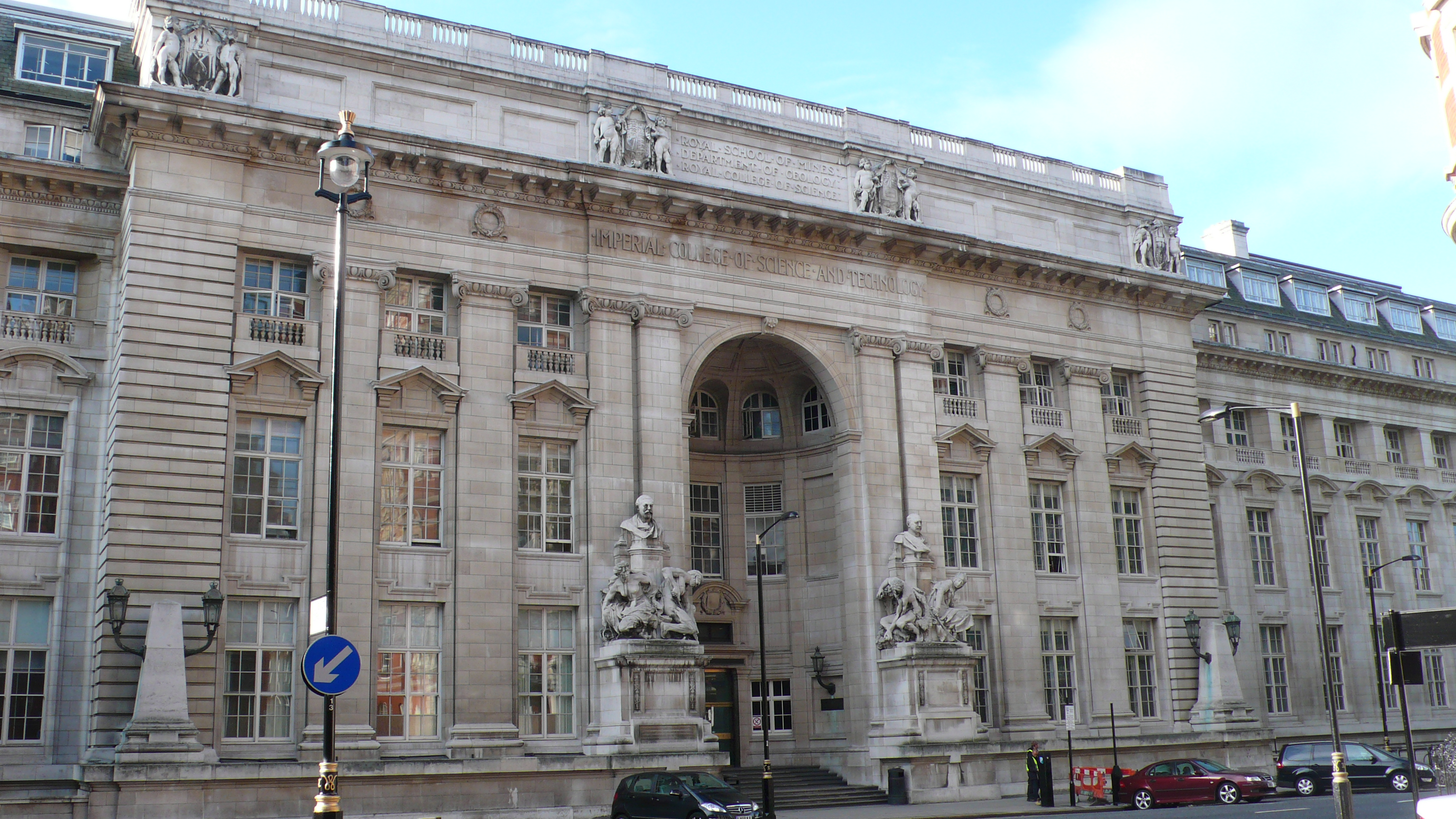 Royal School of Mines